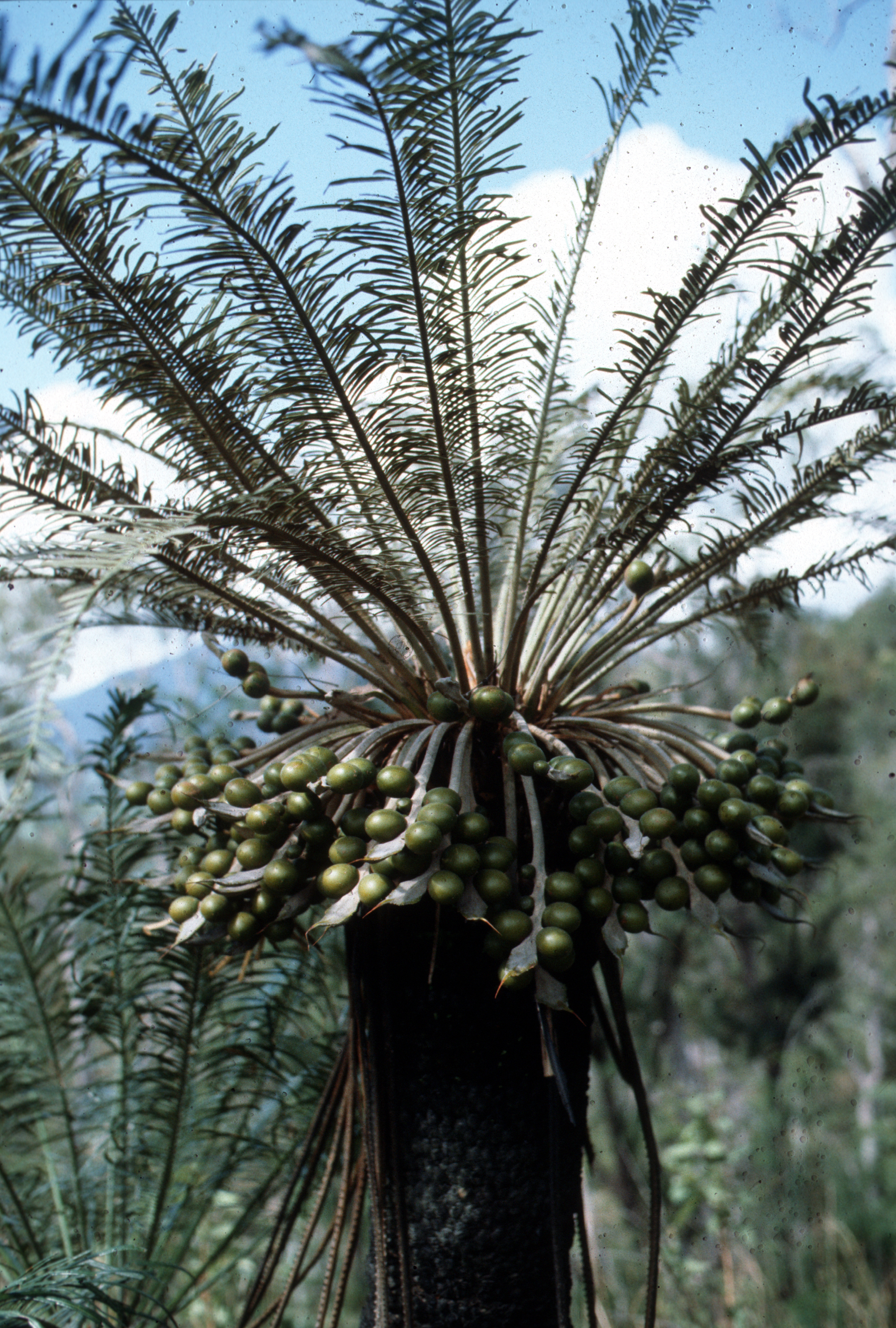 The cycads are an extremely ancient group of plants. This one, Cycas media, is abundant in the open eucalypt forests of northern Qld. The seeds of this plant are very poisonous but aborigines of the area devised a method of preparation so they are innocuous.